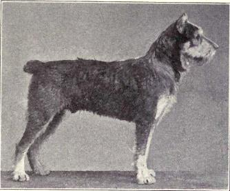 Wire-coated German Terrier from 1915